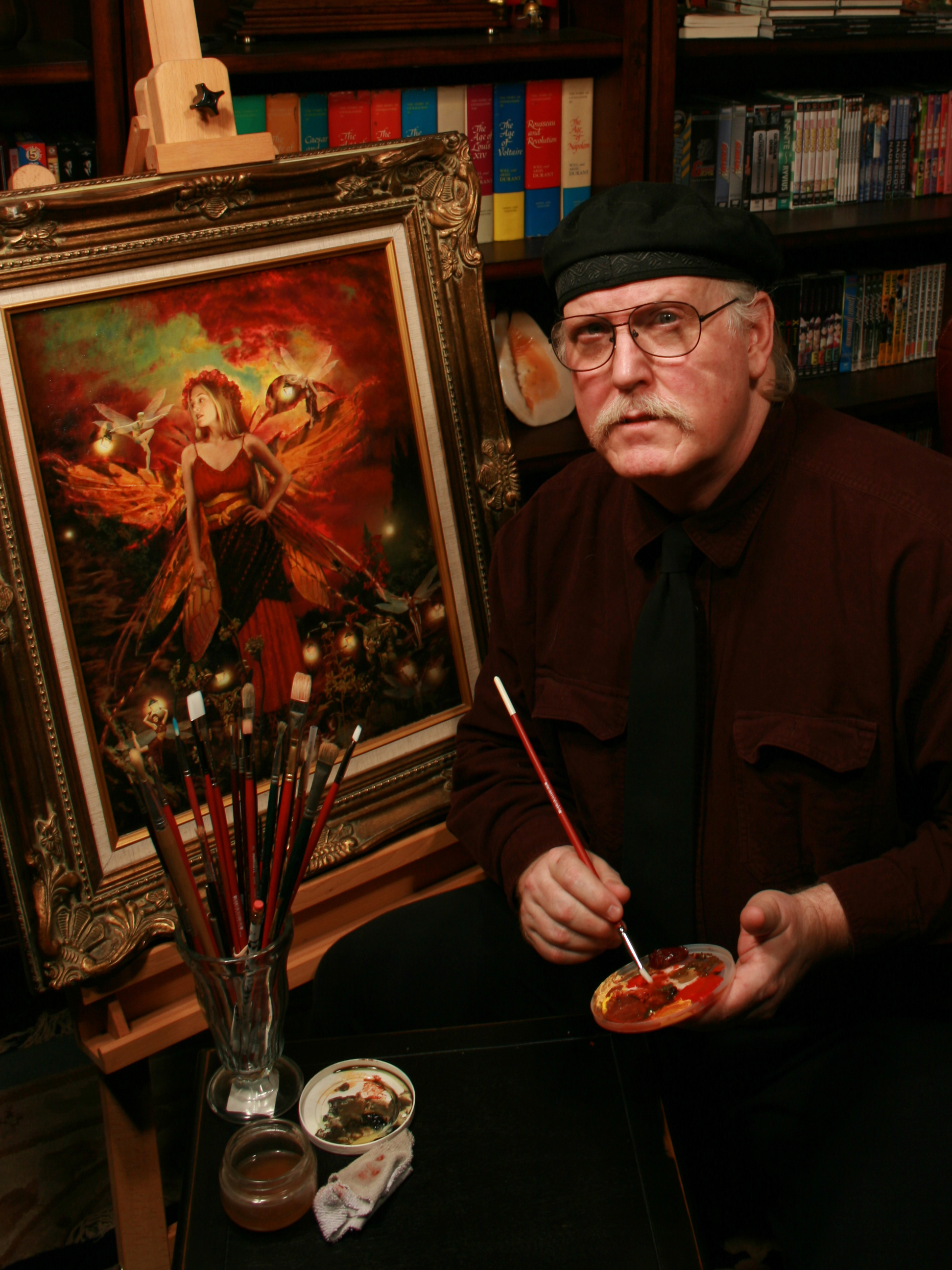 A publicity photo of Howard David Johnson at work.